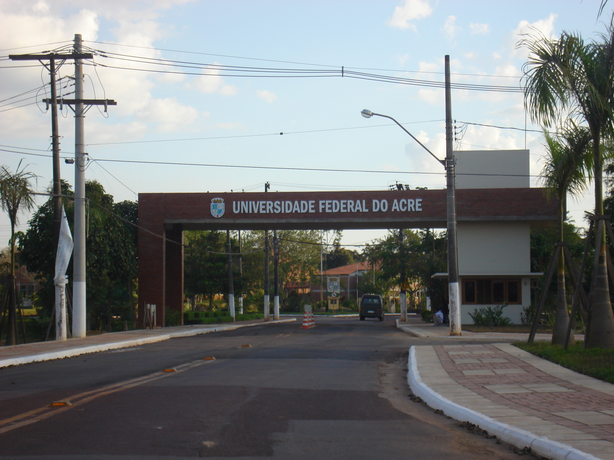 The Federal Universtiy of the state of Acre, Brasil